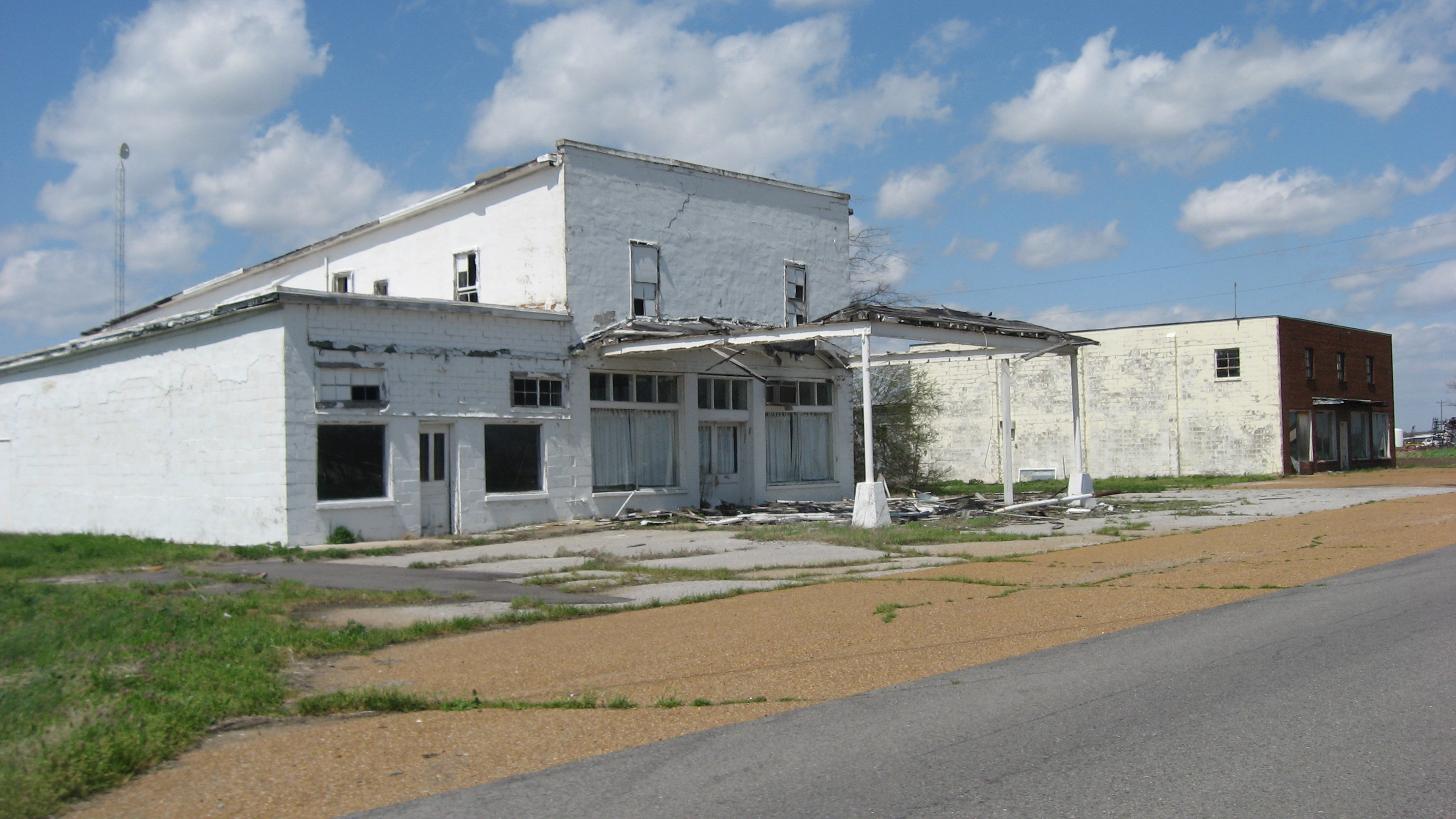 Decaying abandoned buildings along Kentucky Route 94 at the community of Sassafras Ridge in Fulton County, Kentucky, United States.